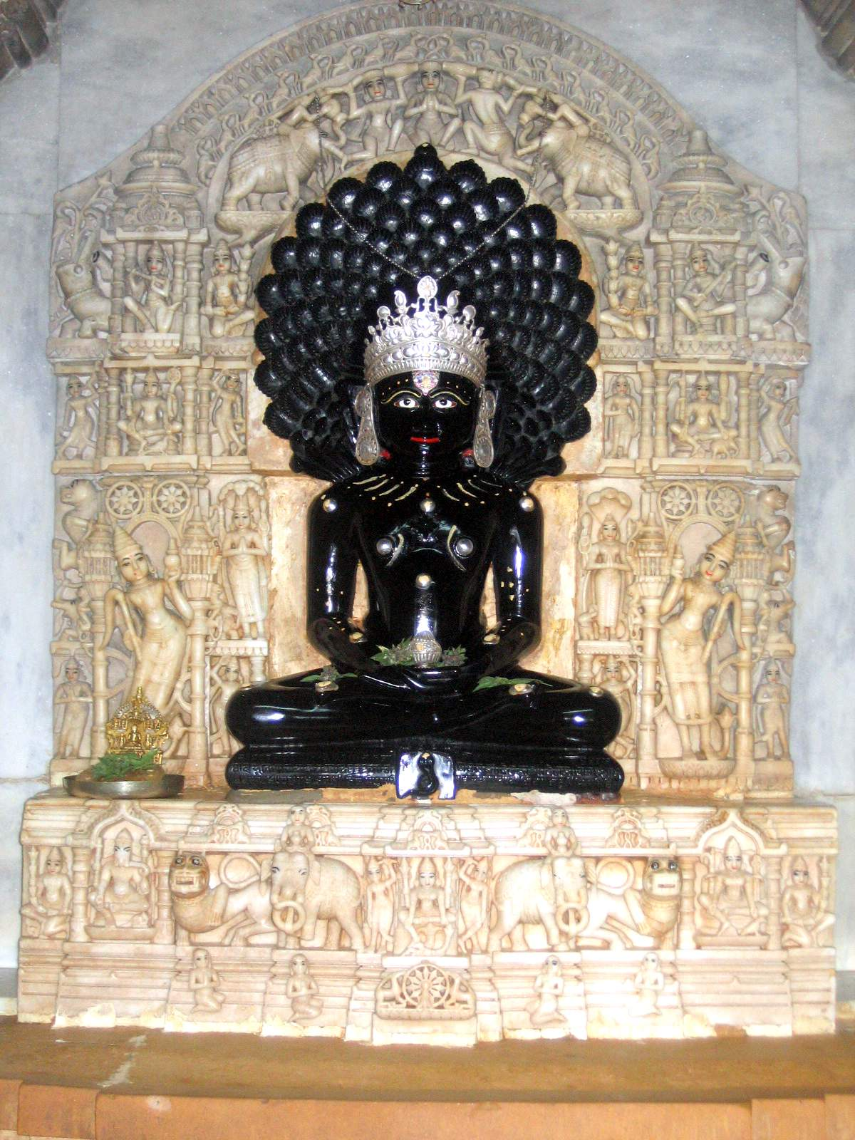 idol of Lord Parsva, 23rd Jain Tirthankara, Parasvanatha Jain Temple, Lodhruva, 10km north of Jaisalmer, Rajasthan, India